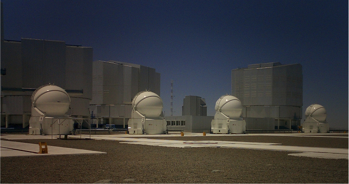 On the night of 15 December 2006, the fourth and last-to-be-installed VLTI Auxiliary Telescope (AT4) obtained its 'First Light'. The first images demonstrate that AT4 will be able to deliver the excellent image quality already delivered by the first three ATs. It will soon join its siblings to perform routinely interferometric measurements.